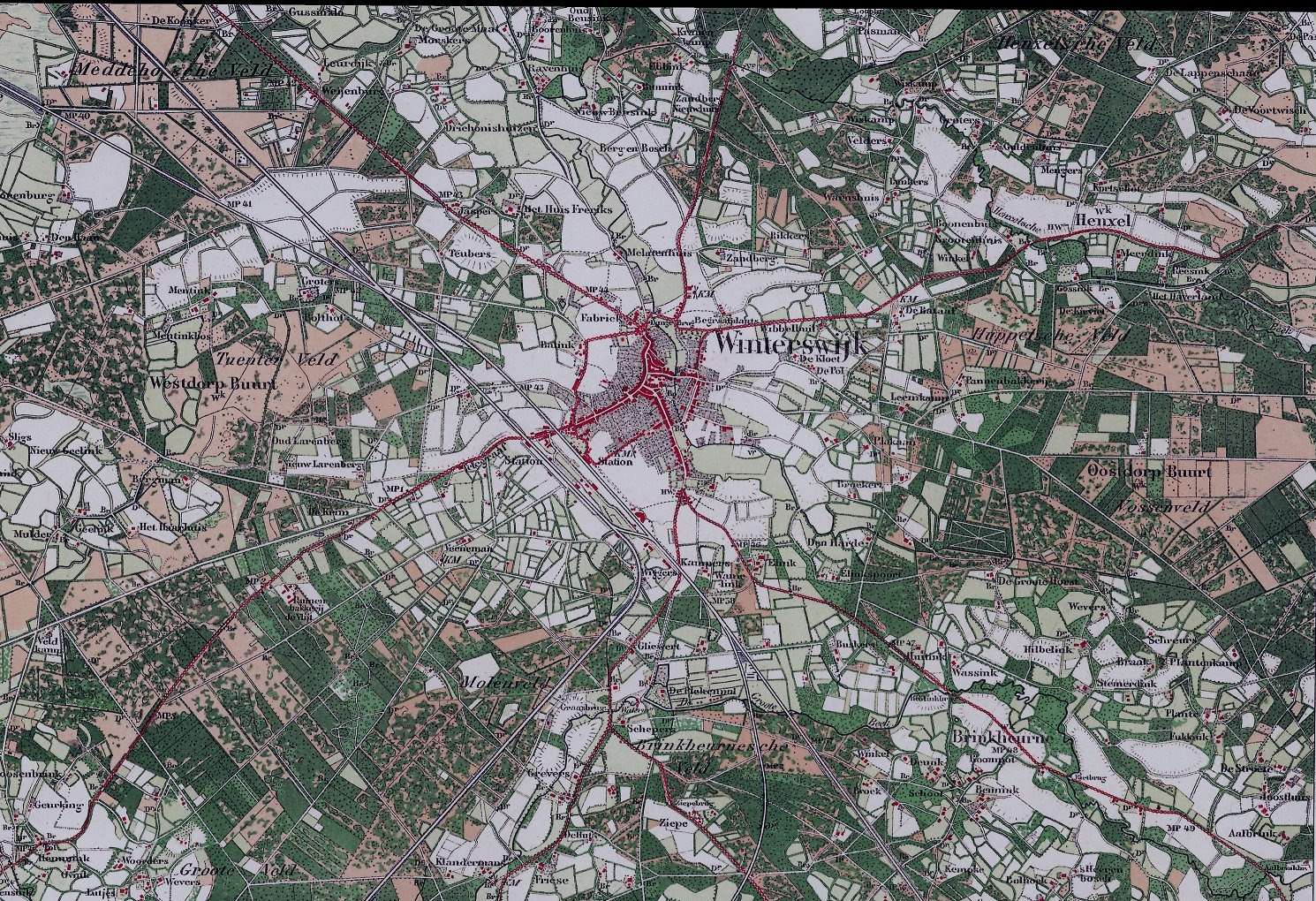 part of old topographic map Winterswijk, Holland. Map published in 1911